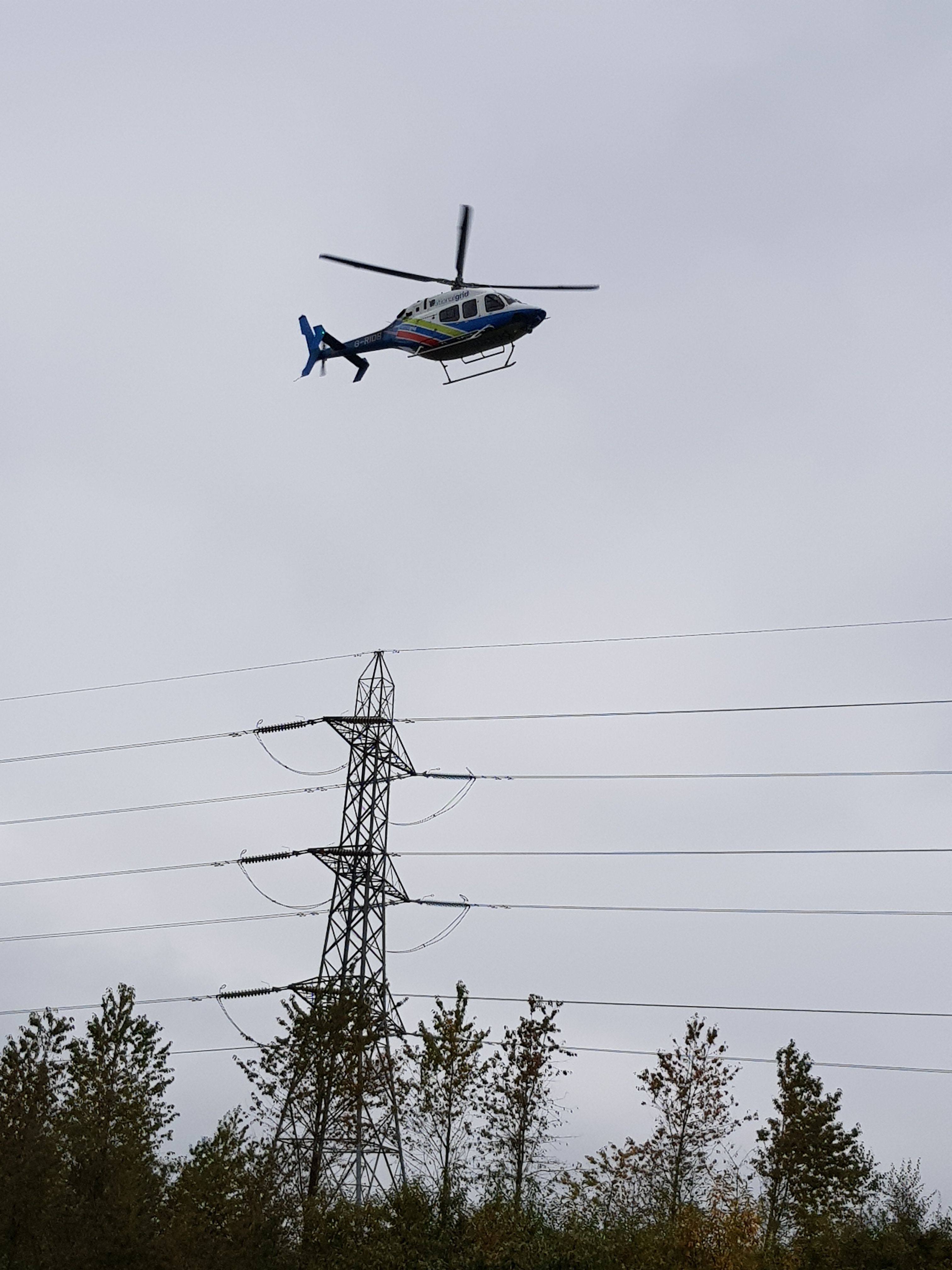 National Grid helicopter (G-RIDB) inspecting wires in Greater Manchester